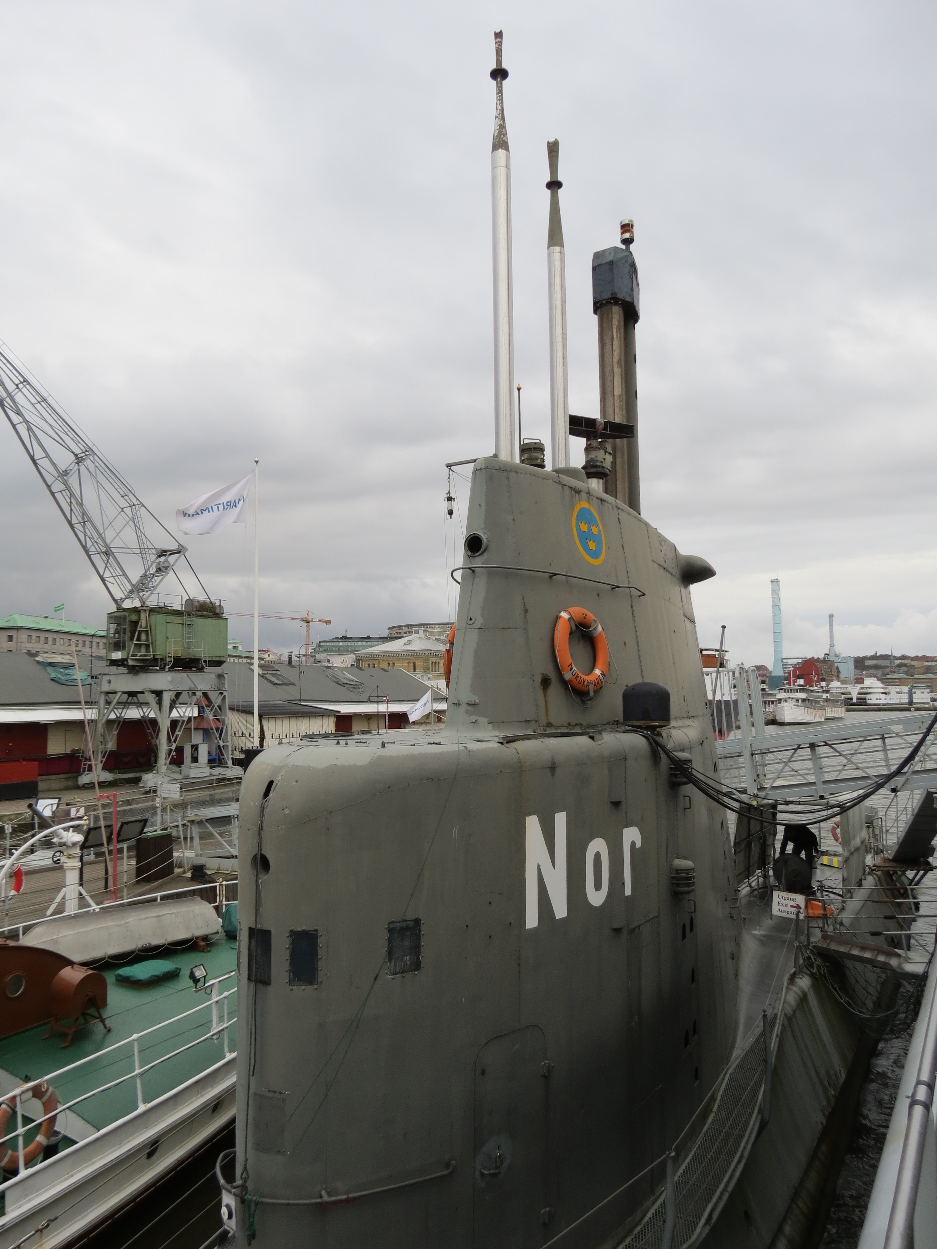 Swedish submarine HMS Nordkaparen (Nor) at the Martitime Museum in Gothenburg.